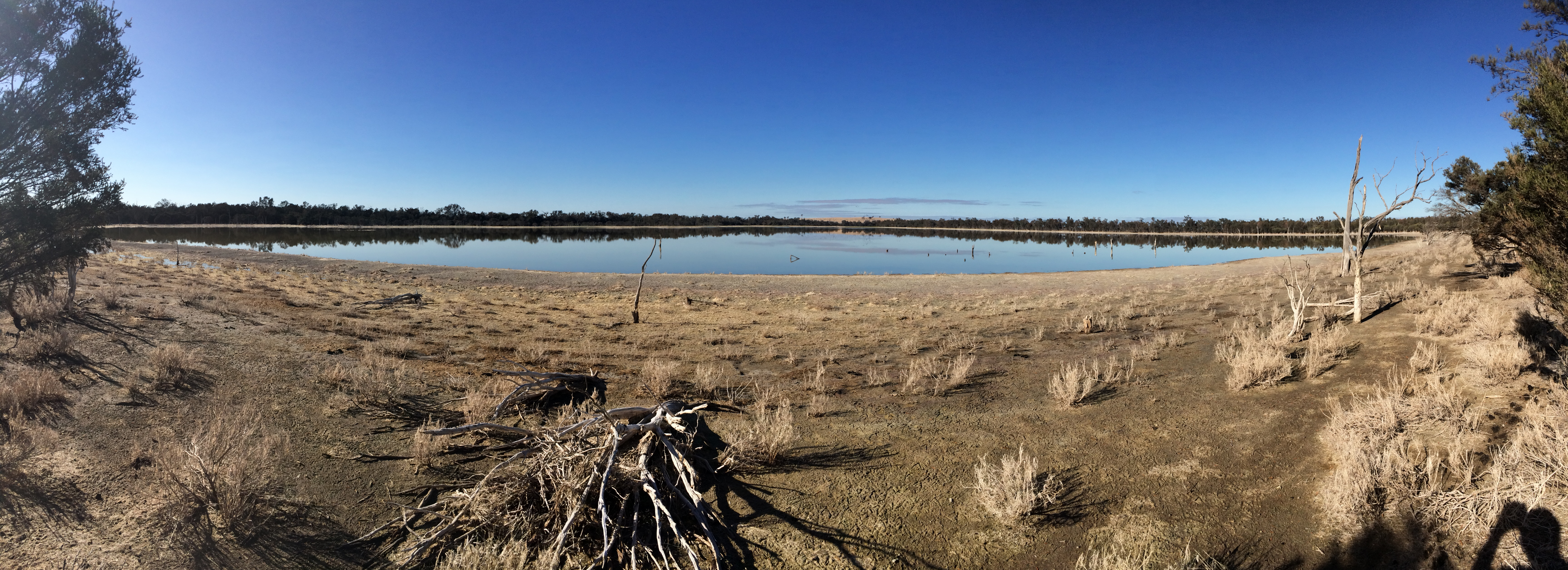 Parkeyerring Lake panorama 2018